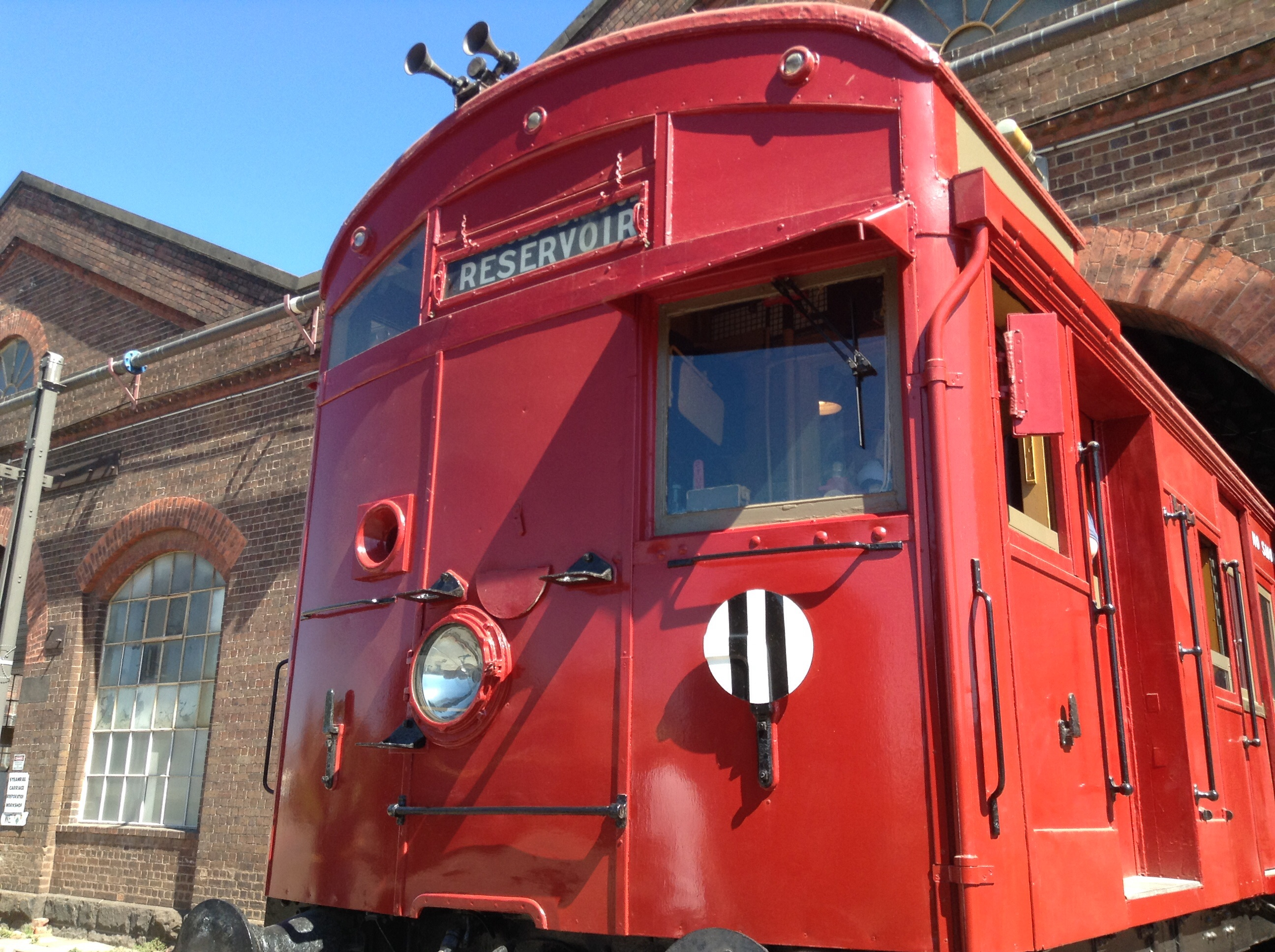 An Elecrail restored tait at the 2014 Newport Workshops open day.